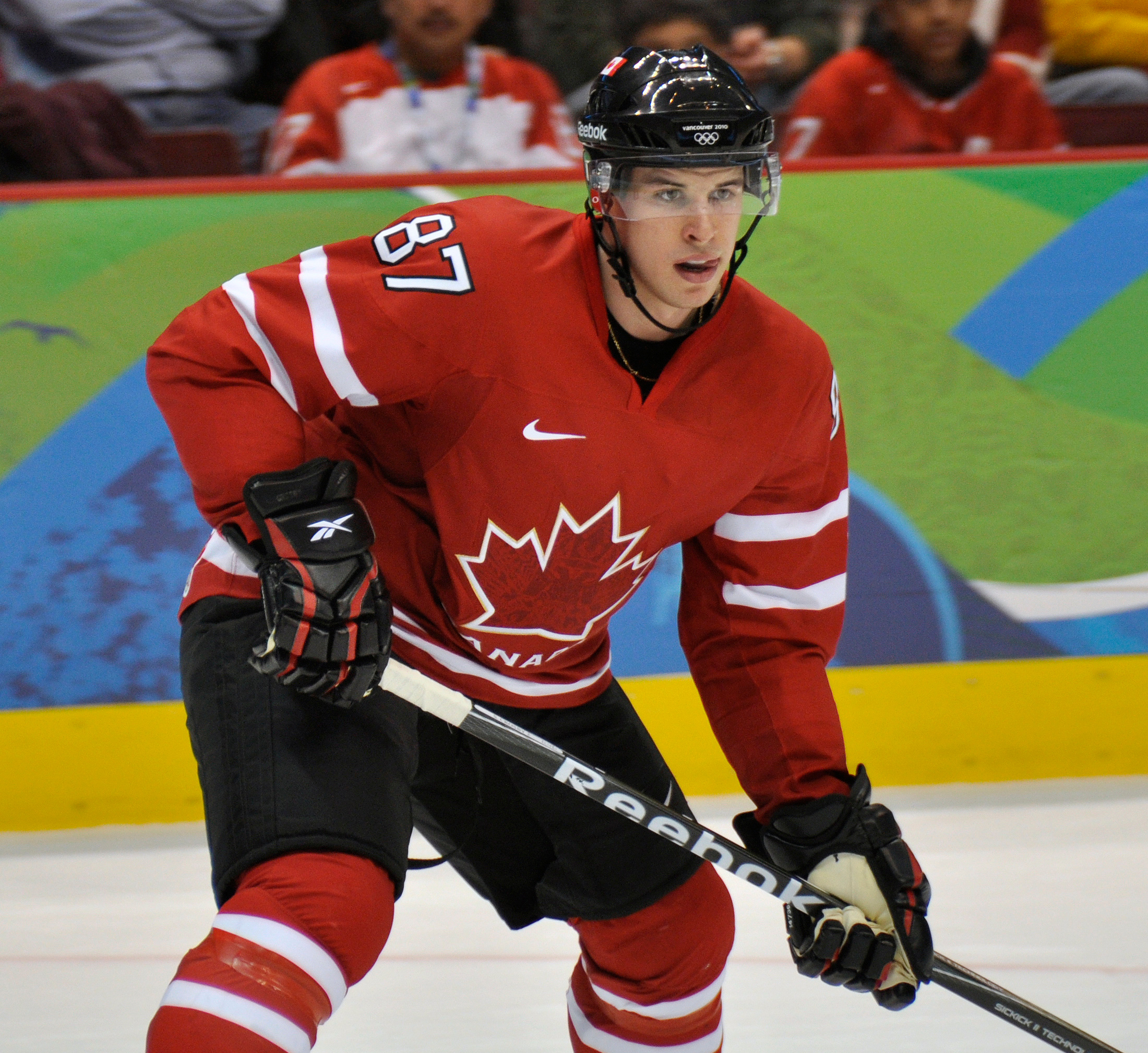 Sidney Crosby in action in the Team Canada game against Norway at the 2010 Winter Olympics